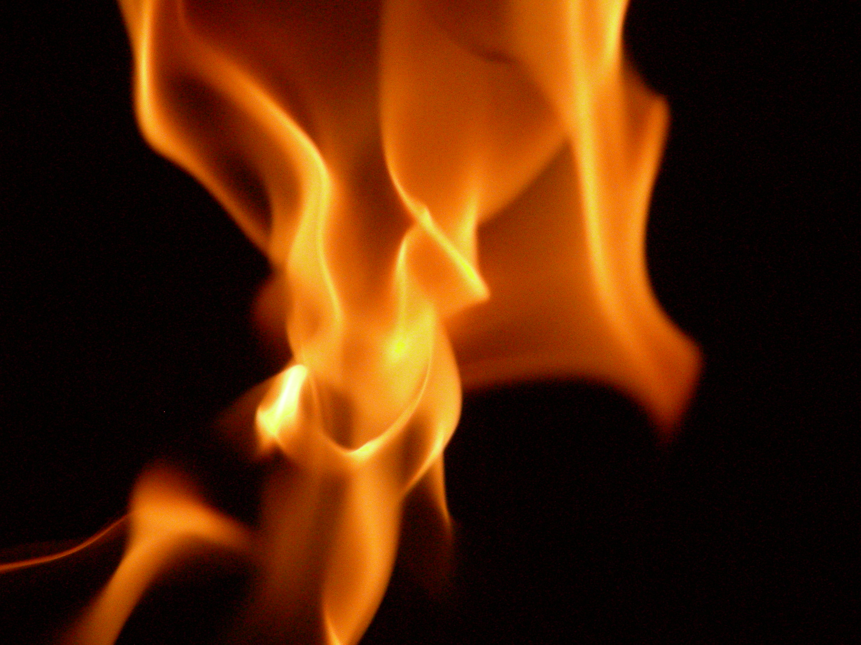 Dancing Flames of burning charcoal in the dark